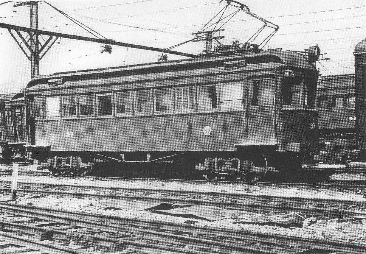 Hankyu 37